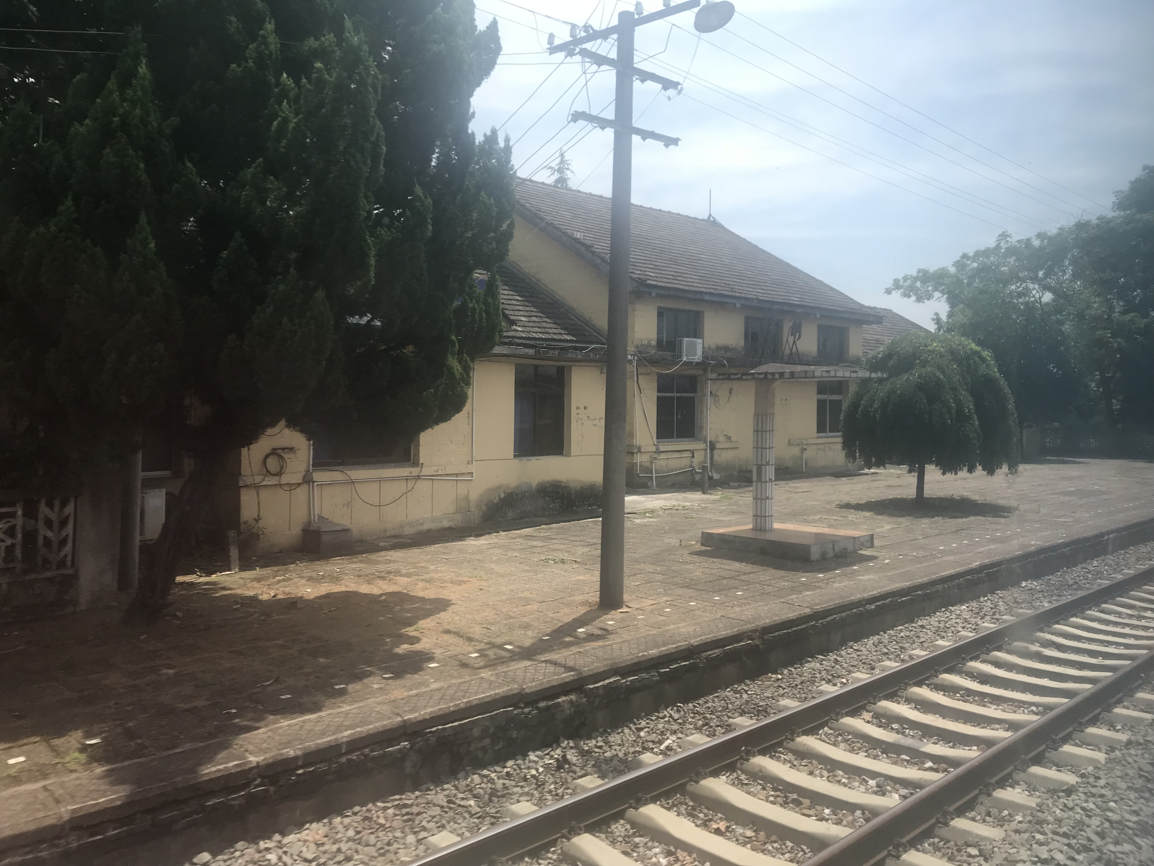 201806 Station Building of Taqian Station